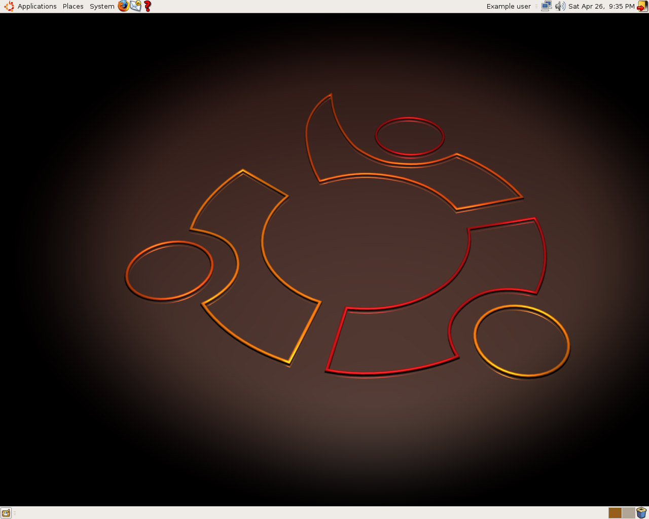 Screenshot of Edubuntu 8.04.